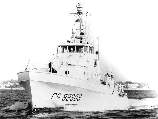 USCGC Point White (WPB-82308) as she appeared before being assigned to Coast Guard Squadron One. Note that the crew is in dress uniform and manning the port rail during a "Special Sea Detail" evolution.